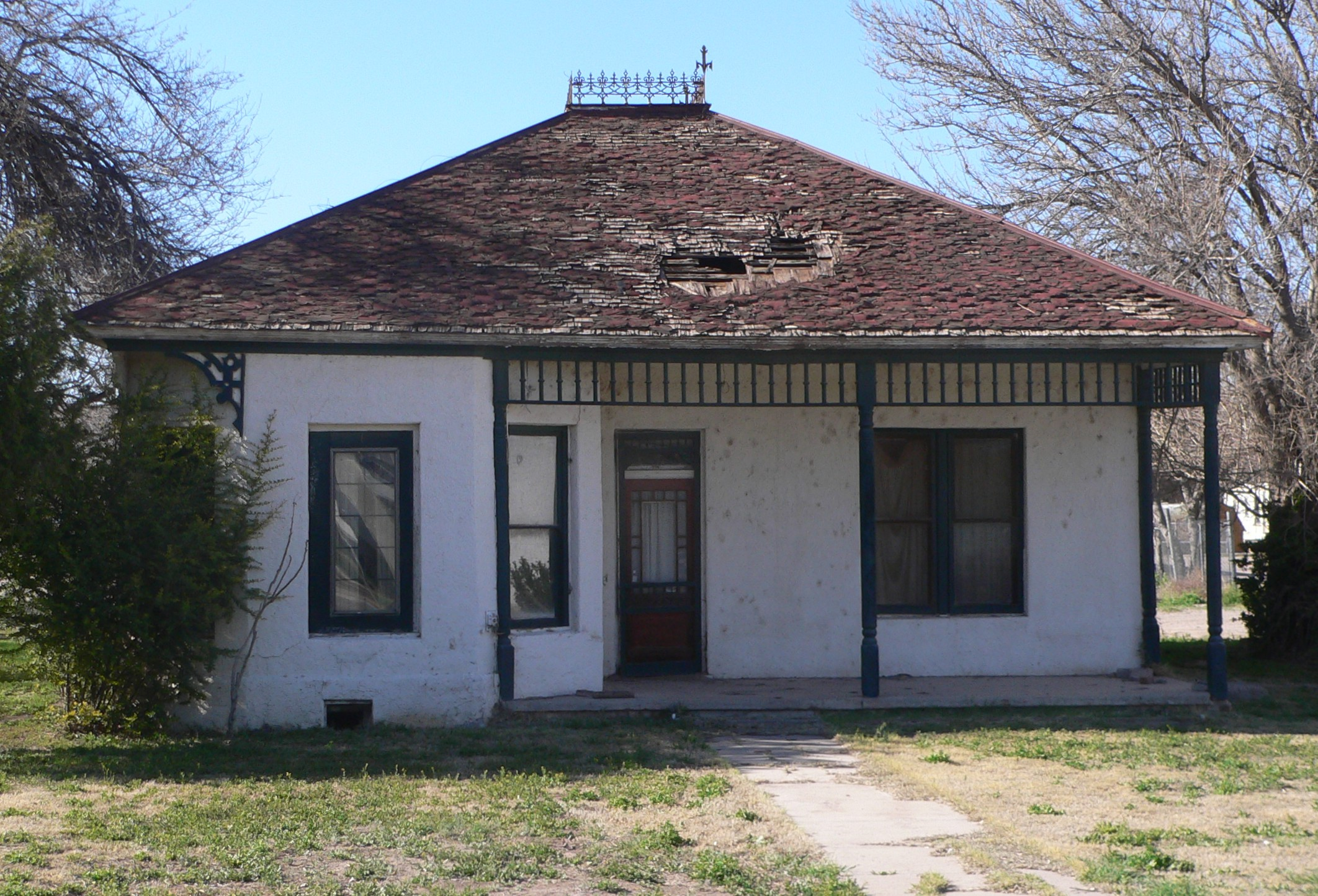 Benjamin F. Billingsley house, located at northwest corner of Main and Church Streets in Duncan, Arizona; seen from the southeast. The house faces southeast, toward Main.